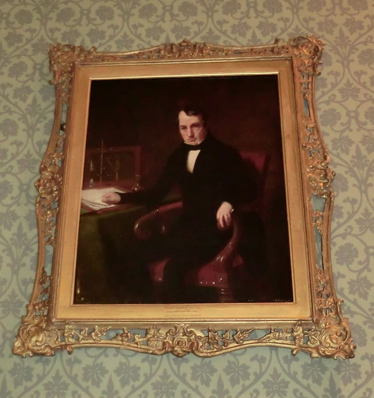 Portrait of Thomas Thomson attribuited to John Graham-Gilbert (died 1866).